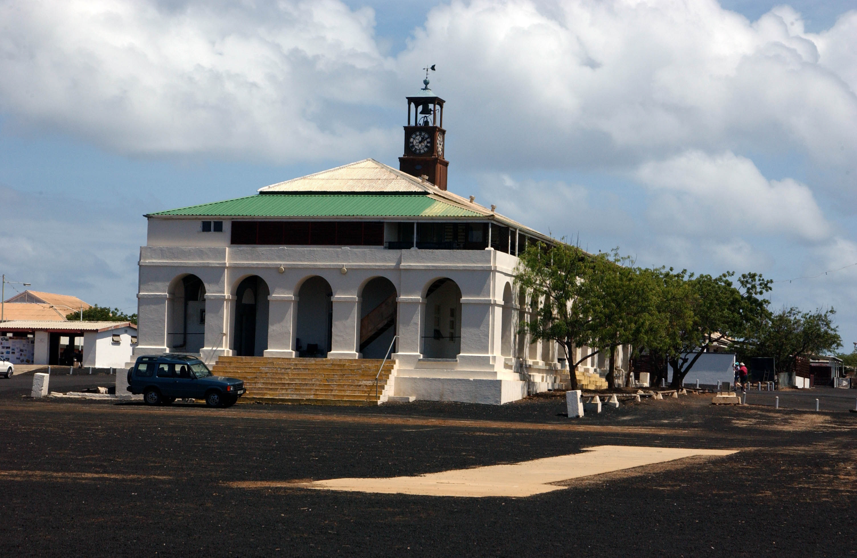 MARINE BARRACKS – COMMONLY CALLED THE EXILES CLUB; CONSTRUCTED IN 1830 AS A SINGLE STORY MARINE BARRACKS. IN 1848, A SECOND STORY WAS ADDED BRINGING THE CAPACITY OF THE BARRACKS TO 150. THE BUILDING REMAINED IN USE UNTIL 1903, WHEN A REPLACEMENT BARRACKS WERE BUILT in ASCENSION ISLAND